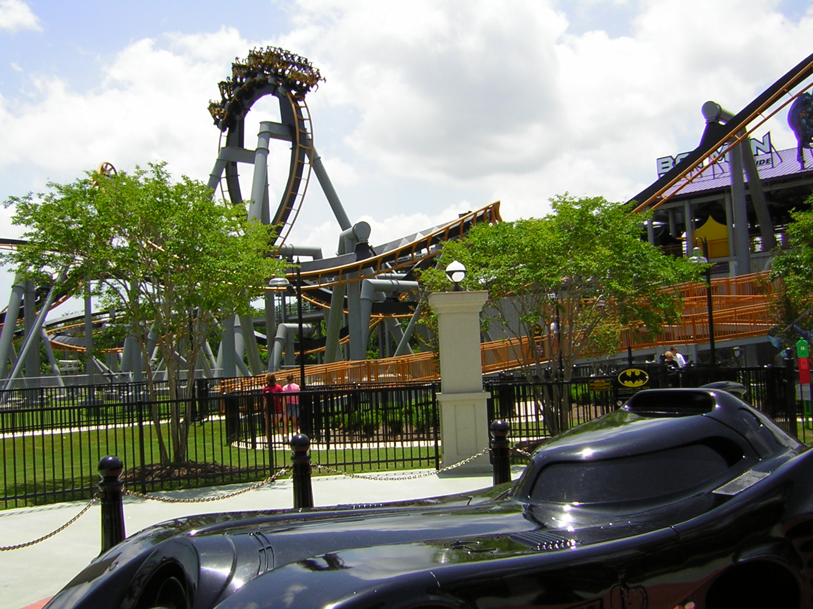 Six Flags New Orleans 2004. Not as much of an elaborate queue as there is at Six Flags over Georgia, Six Flags over Texas or even Six Flags St. Louis for that matter.